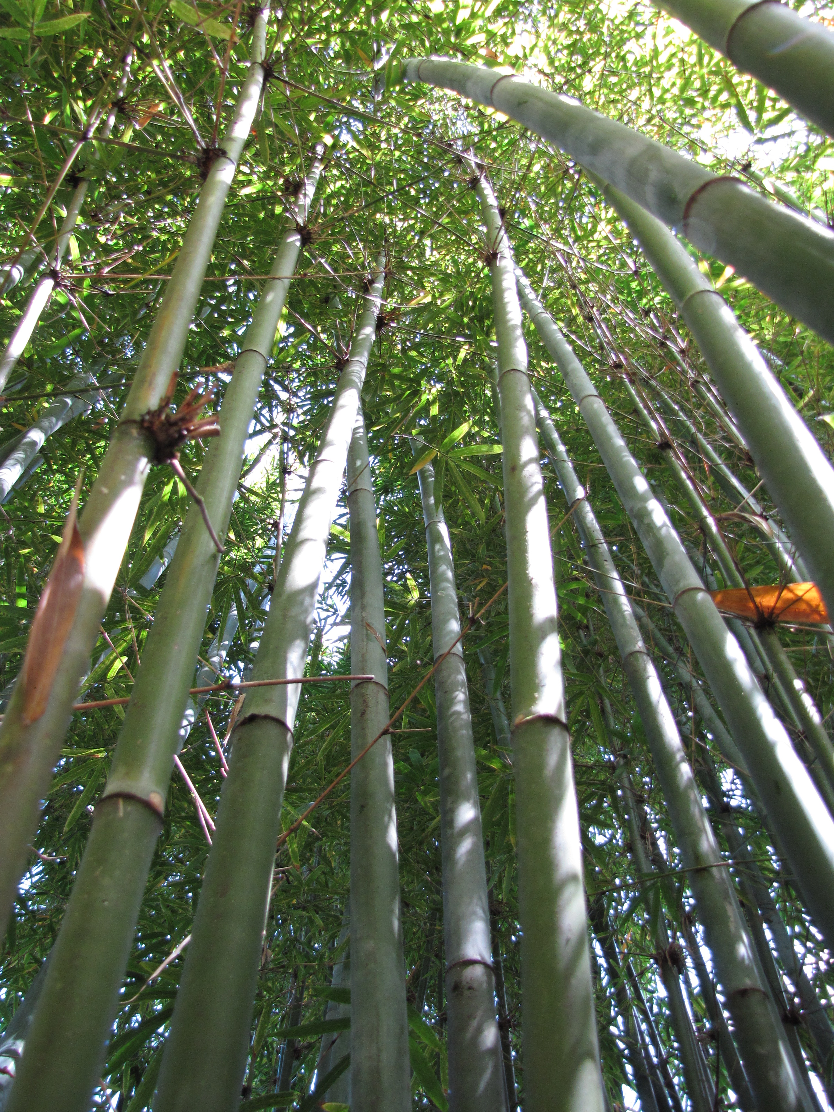 Bambusa textilis (Weaver's bamboo) Canopy at Garden of Eden Keanae, Maui, Hawaii. March 30, 2011 #110330-3988 Image Use Policy